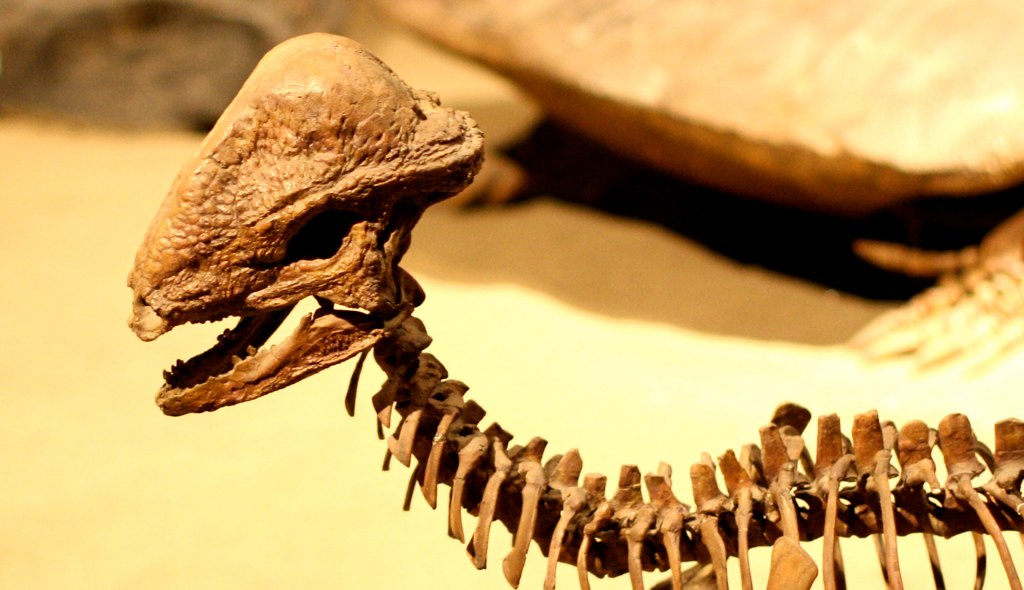 Stegoceras mount.